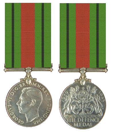 Defence Medal 2008